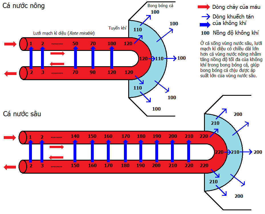 Simplified diagram showing how gas was pumped into swim bladder in the case of deep and shallow water fishes. (Vietnamese)